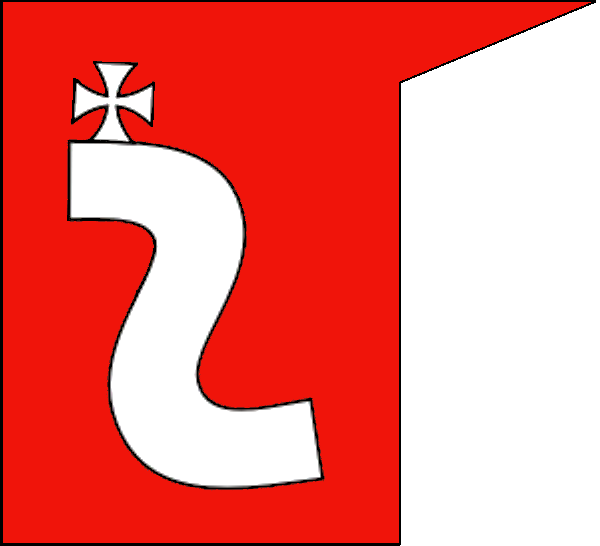 Banner of Szreniawa Coat of Arms